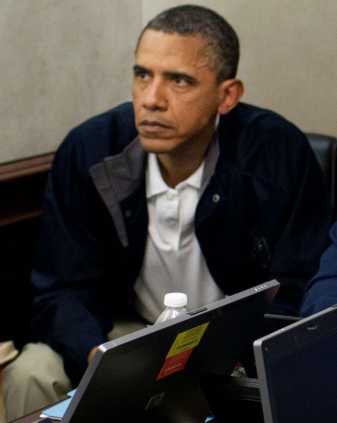 U.S. President Barack Obama in the Situation Room